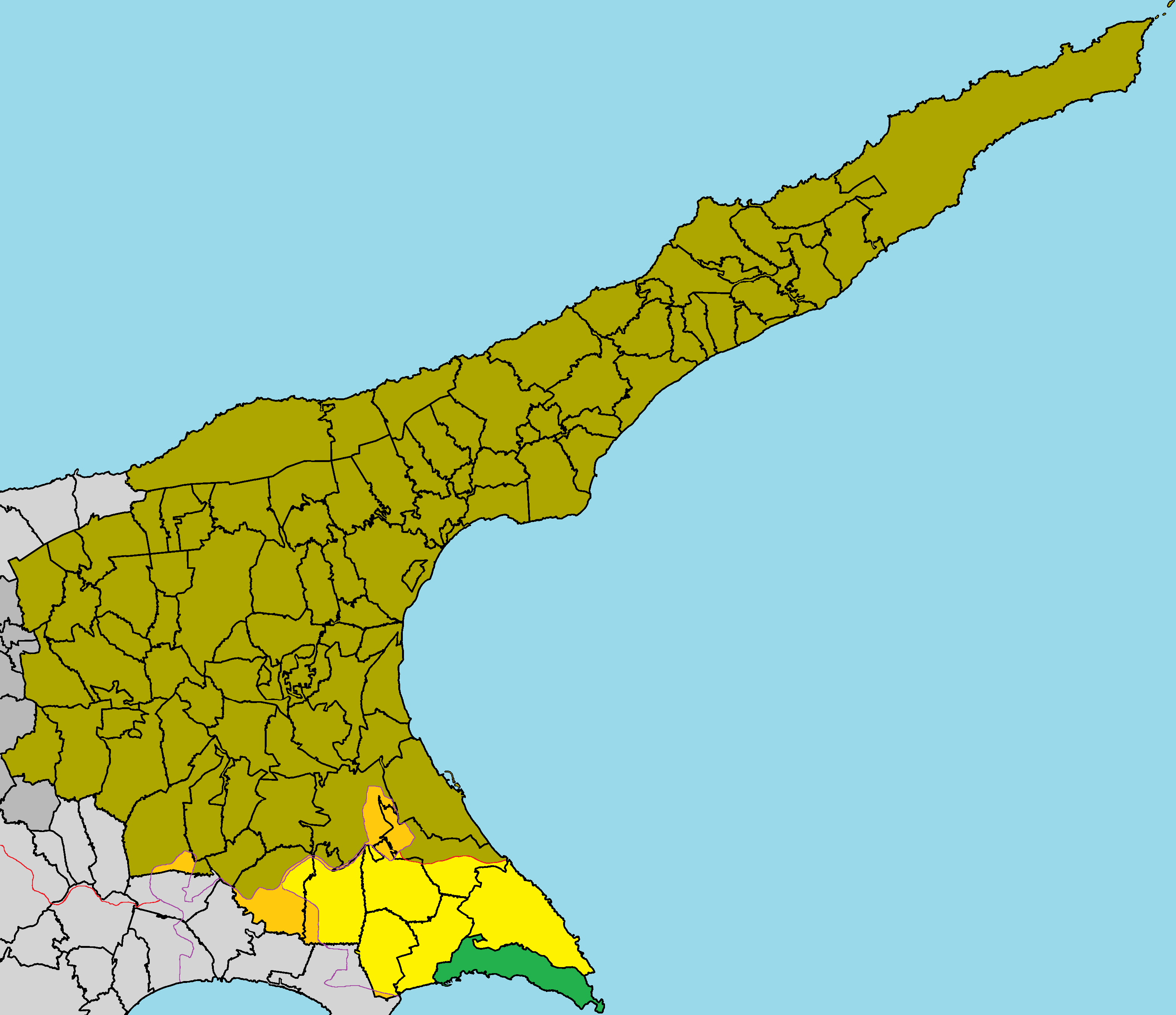 Ayia Napa in Famagusta District.